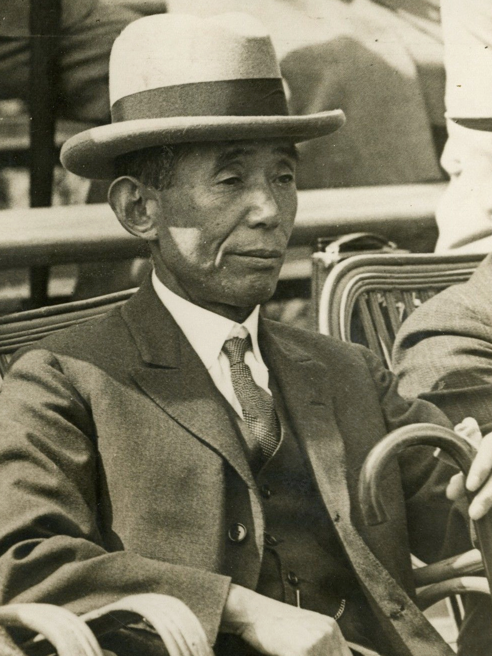 "Kenkichi YOSHIZAWA ambassadeur JAPON 1931" Photo originale G.DEVRED (Agce ROL)